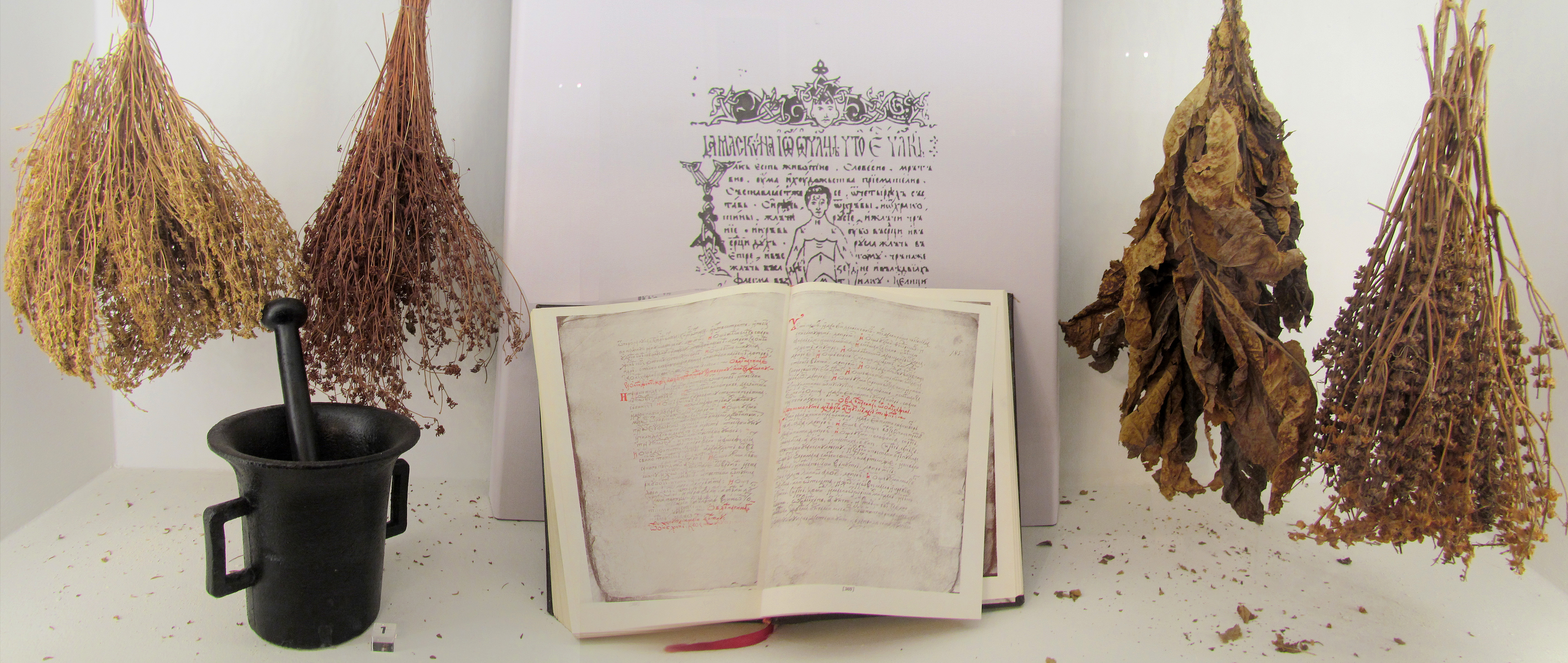 Ethnomedicine, Museum of the Serbian Medical Association